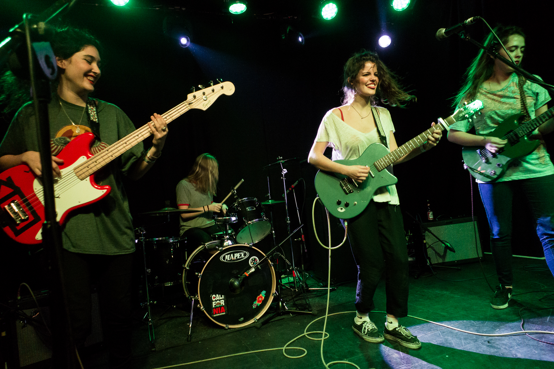 Hinds live at the Boston Arms in London 2015.